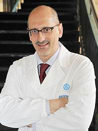 Massimo Massetti